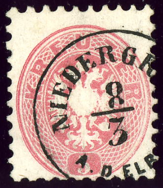 Austrian KK stamp, 5 kreuzer, issue 1863, cancelled at NIEDERGRUND an der ELBE, Bohemia, Dolní Žleb, Mueller 70 Points